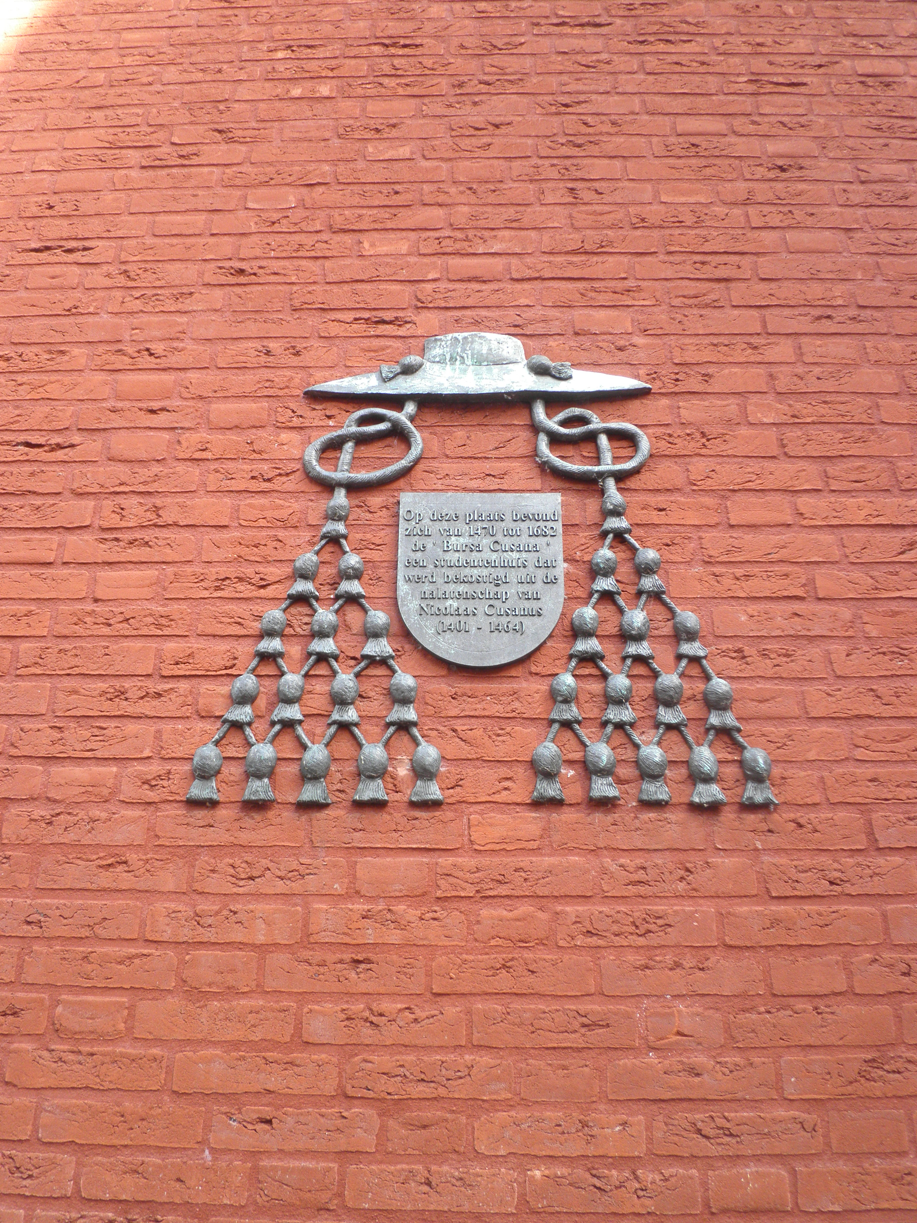 Relief, memorial of the Bursa Cusana